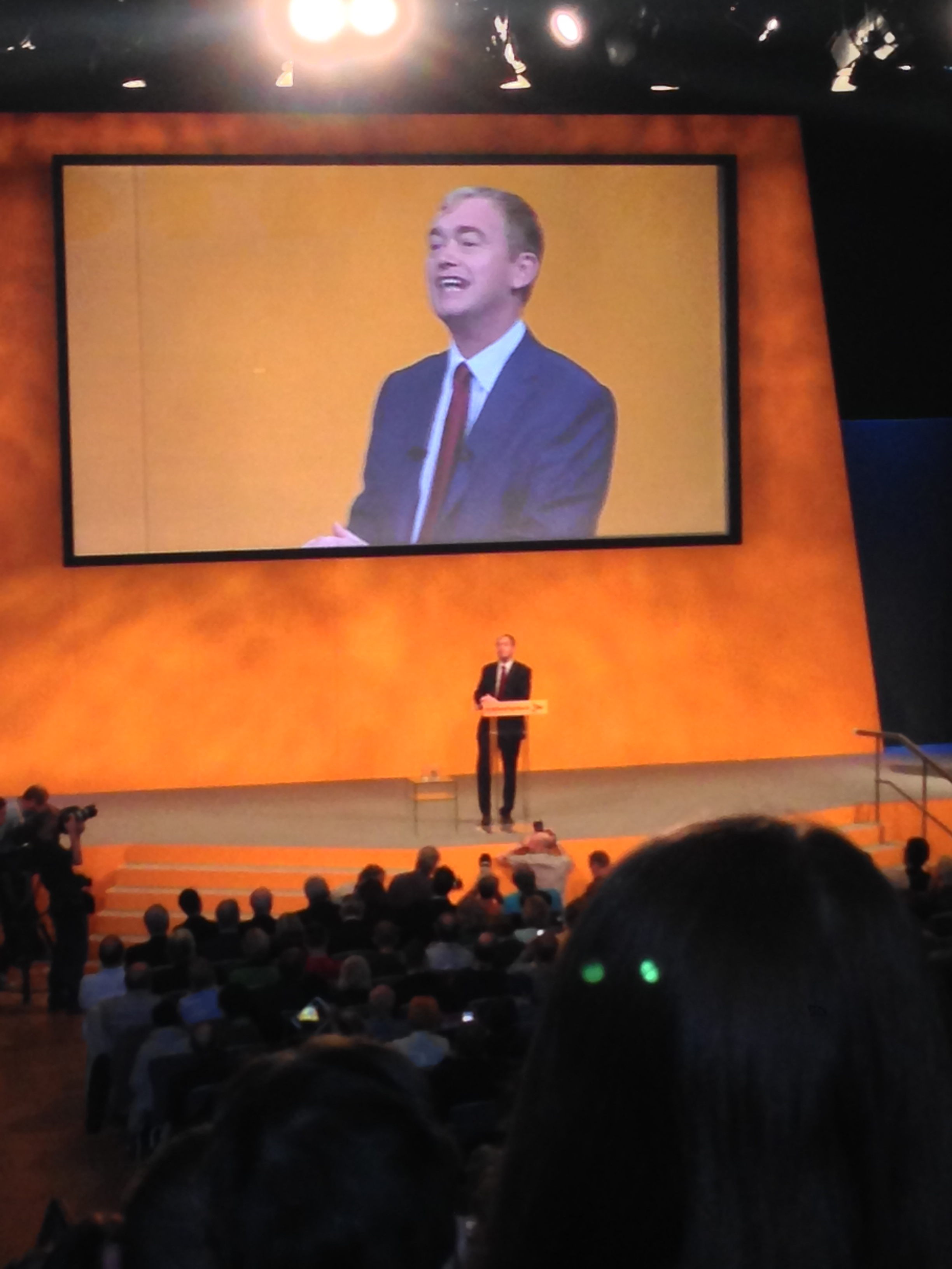 To wrap up an action packed five days of conference, Tim Farron took to the stage and delivered his emotive and passionate speech.